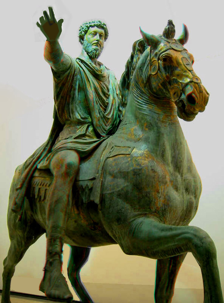 Conventional, self-made 2D image by Photo-journalist replaces universal 3D image. All rights are waived under GFDL. An uploading to "Commons", will follow later.